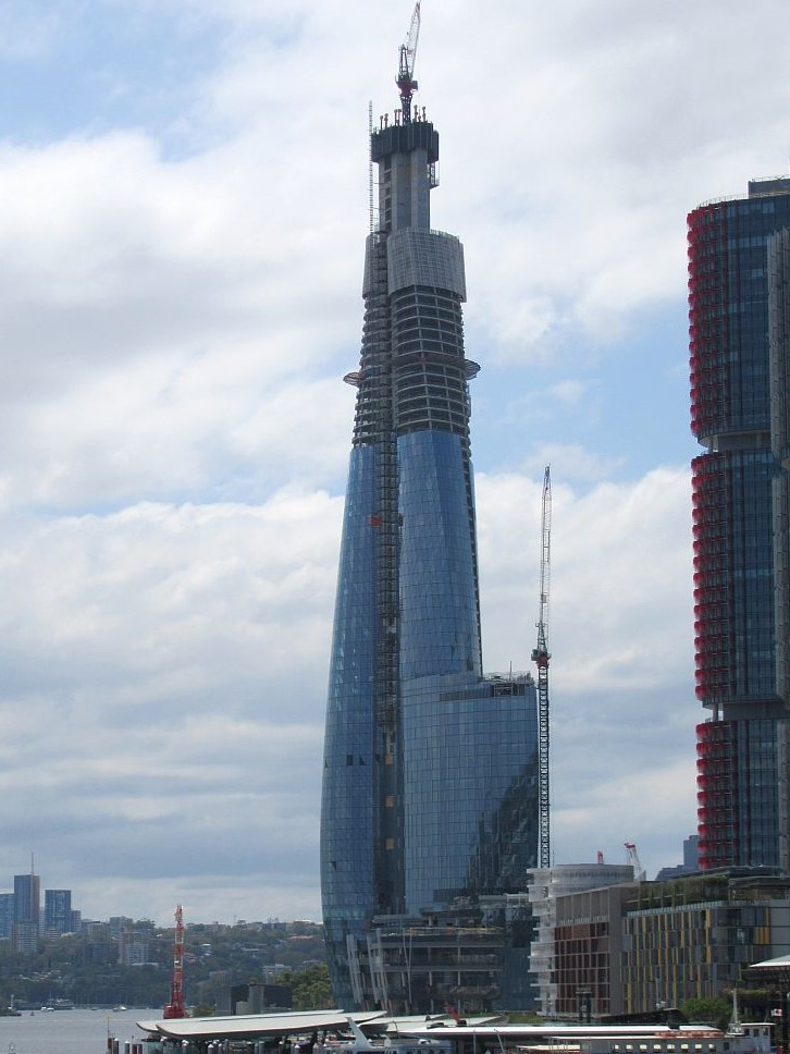 Crown Sydney pictured topped out during its construction phases